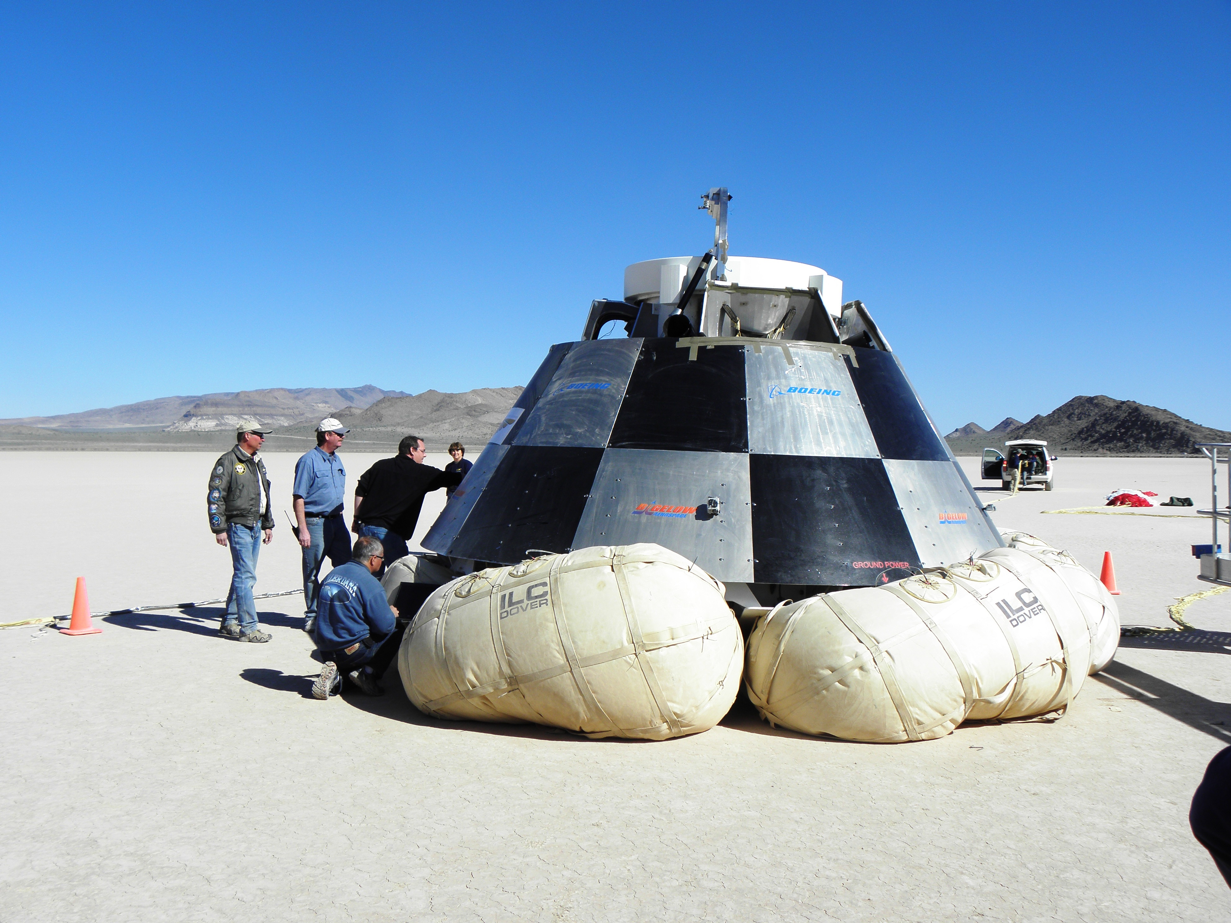 Personnel inspect the CST-100 following the parachute drop test. Additional tests scheduled in 2012 include a second parachute drop test, landing air bag test series, forward heat shield jettison test and a maneuvering/attitude control engine hot fire test.